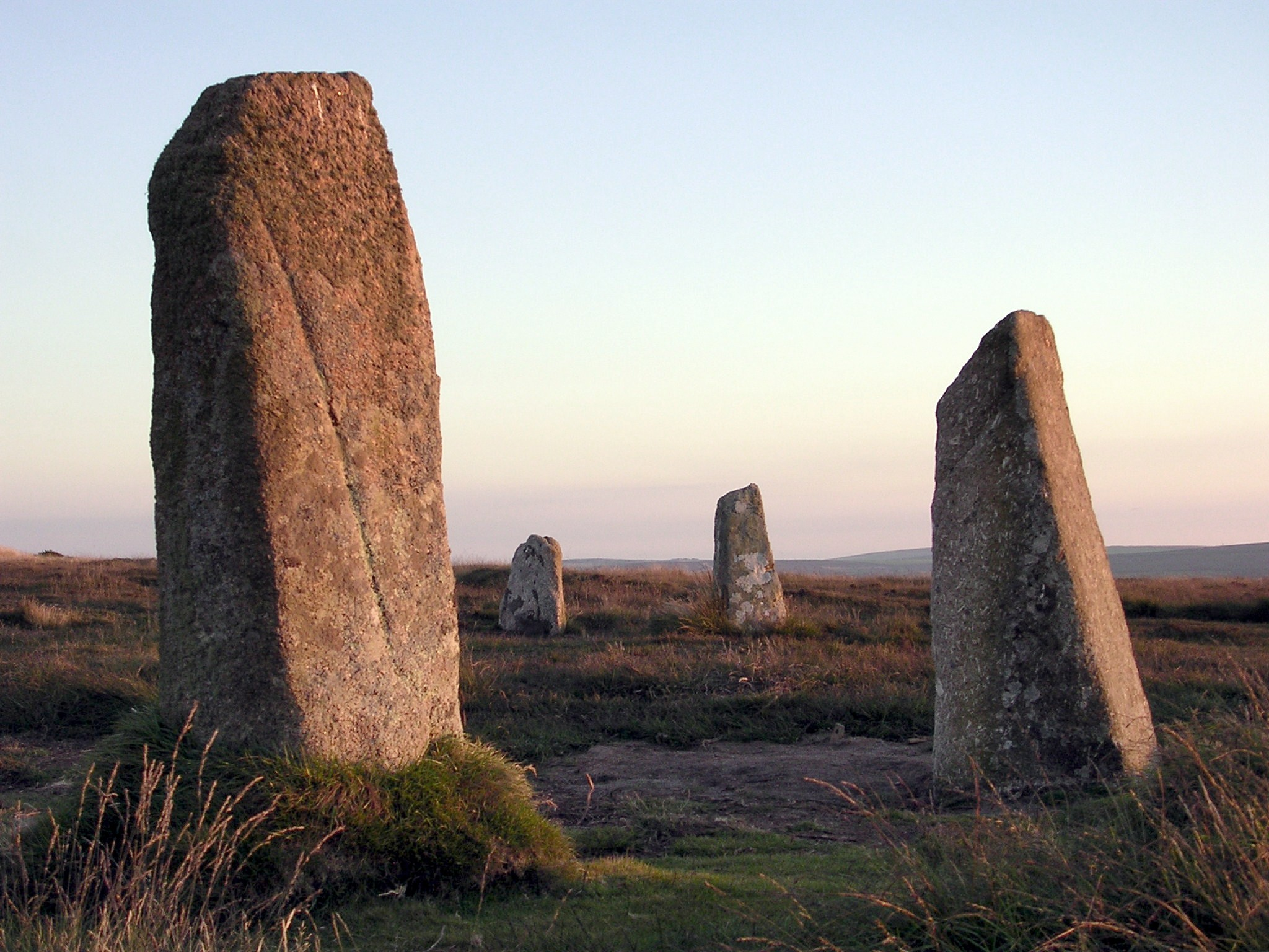 Upright stones (re-erected in 2005) at sunset on the western side of the Boskednan stone circle, near Penzance, Cornwall